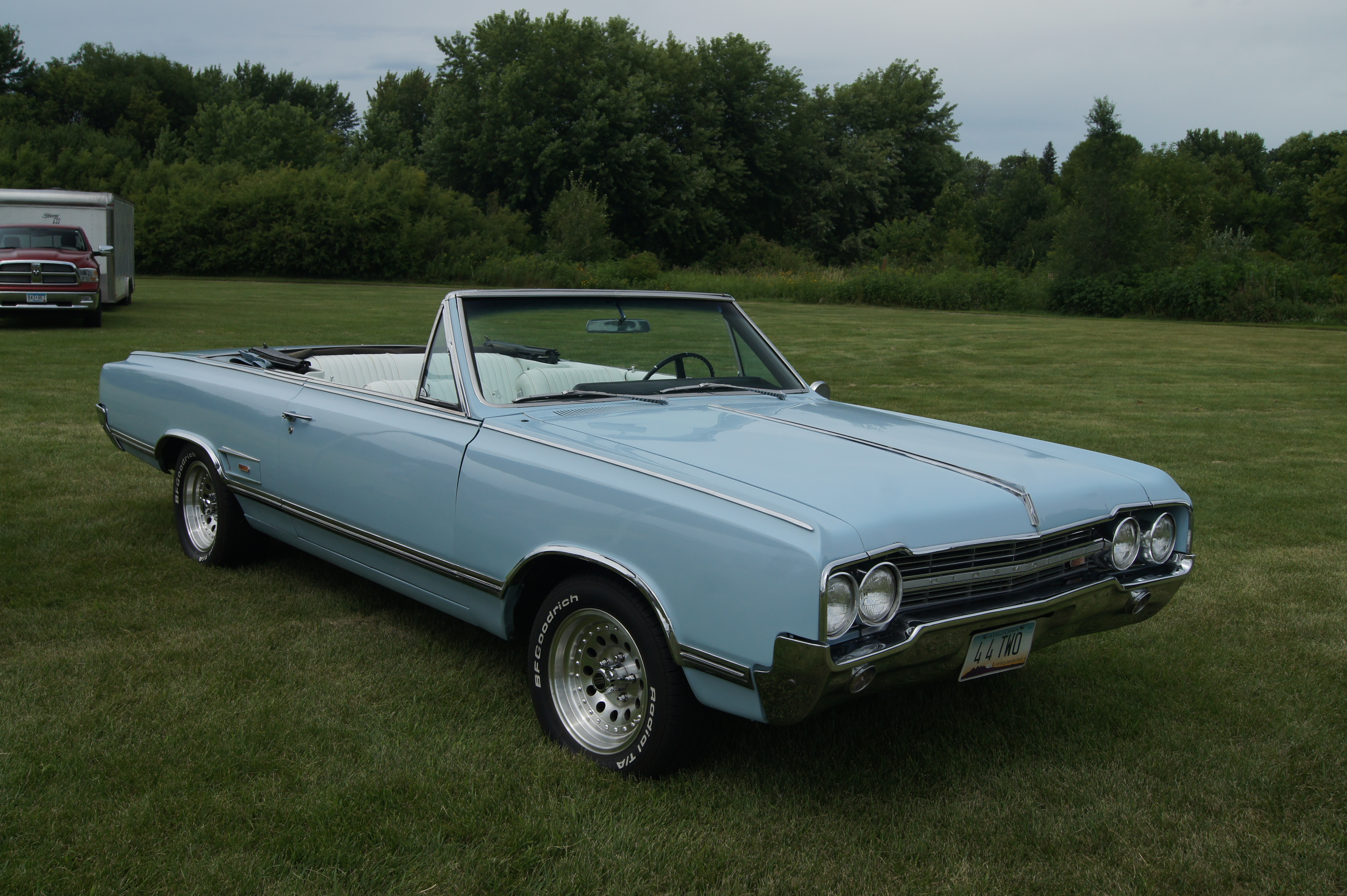 CS Street Machines Car Show July 2015 Cold Spring, Minnesota Click here for more car pictures at my Flickr site.